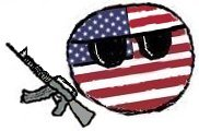 Murricaball M16